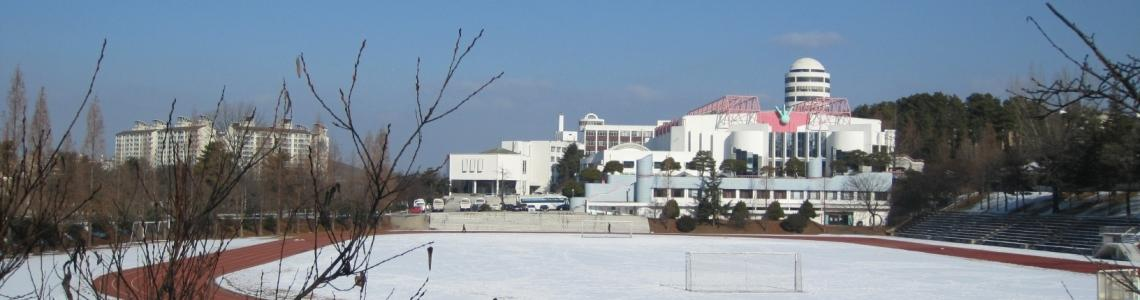 The University of Suwon sports field taken in winter 2014